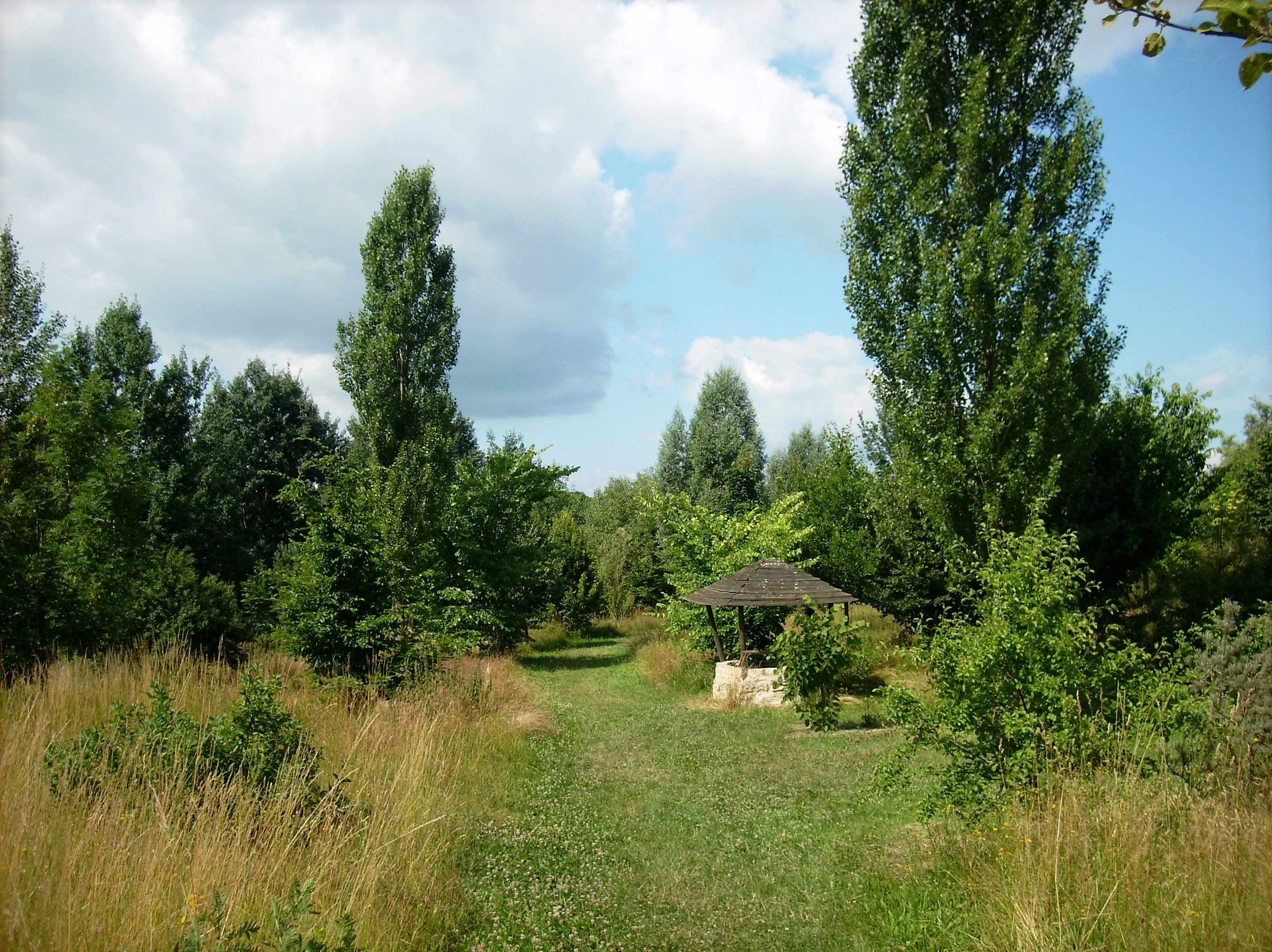 In the ecological garden of Geussnitz (Zeitz, district of Burgenlandkreis, Saxony-Anhalt)